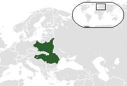 Map showing the territories that would comprise the Międzymorze federation in proposal from 1935 to 1939